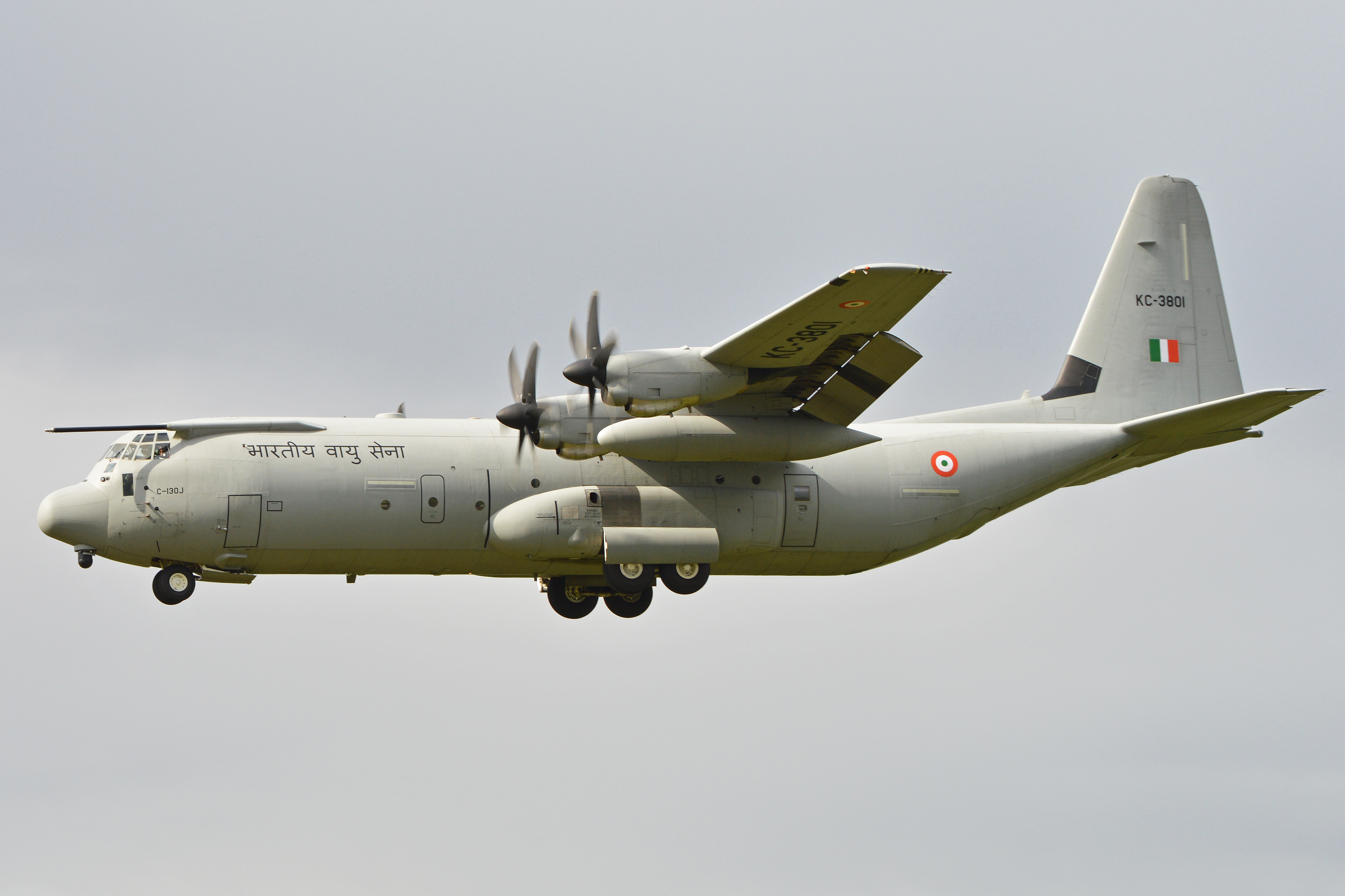 c/n 5638. Built 2011. Operated by 77sqn, Indian Air Force. Seen arriving at RAF Coningsby, Lincolnshire, UK, in support of Operation Indradhanush IV. 29-7-2015